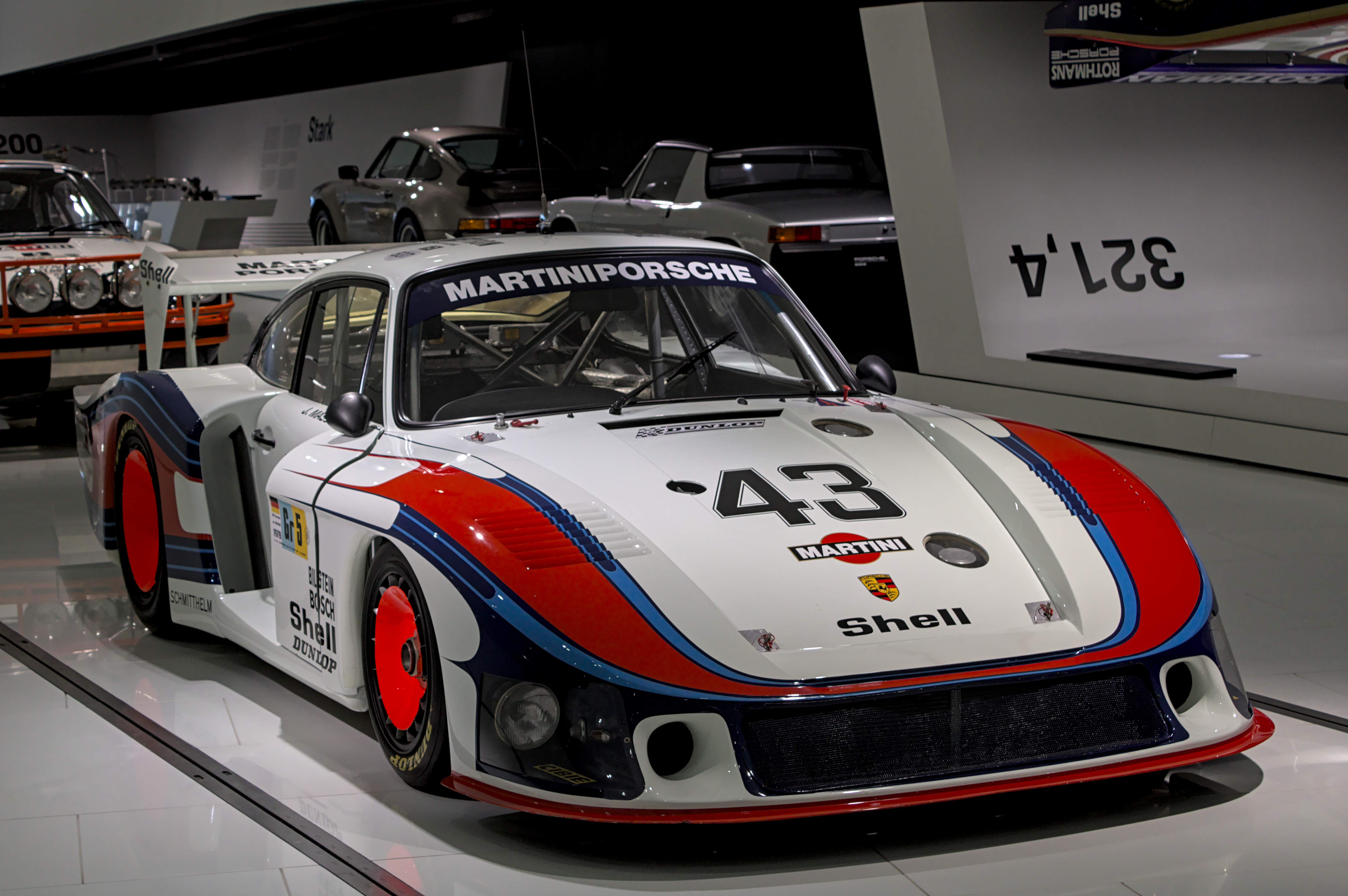 Porsche_935-78_'Moby_Dick'_in_the_Porsche-Museum_(2009) in Stuttgart